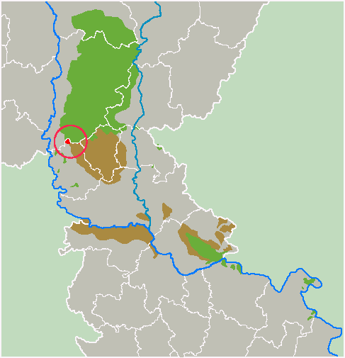 LEGEND: Green - Sands, Red - Selected Sand, Brown - Loess. Српски (ћирилица): Мапа је због потребе приказивања садржаја мала и није у потпуности прецизна. Употребљени извори су педолошке карте и мапе заштићених подручја Завода за заштиту природе, као и рад др Млађена Јовановића Пешчаре у Србији 2014, Природно-математички факултет Универзитета у Новом Саду.